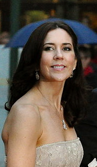 Wedding of Victoria, Crown Princess of Sweden, and Daniel Westling; Arrival of members for the Gouvernment and Swedish and foreign guests of hounour to the Riksdag's Gala Performance at Konserthuset